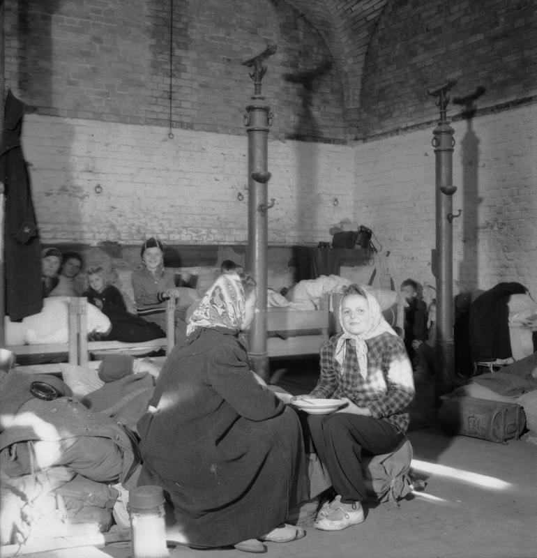 Germany Under Allied Occupation A view of the sleeping accommodation occupied by displaced persons in one of the transit camps in Berlin.